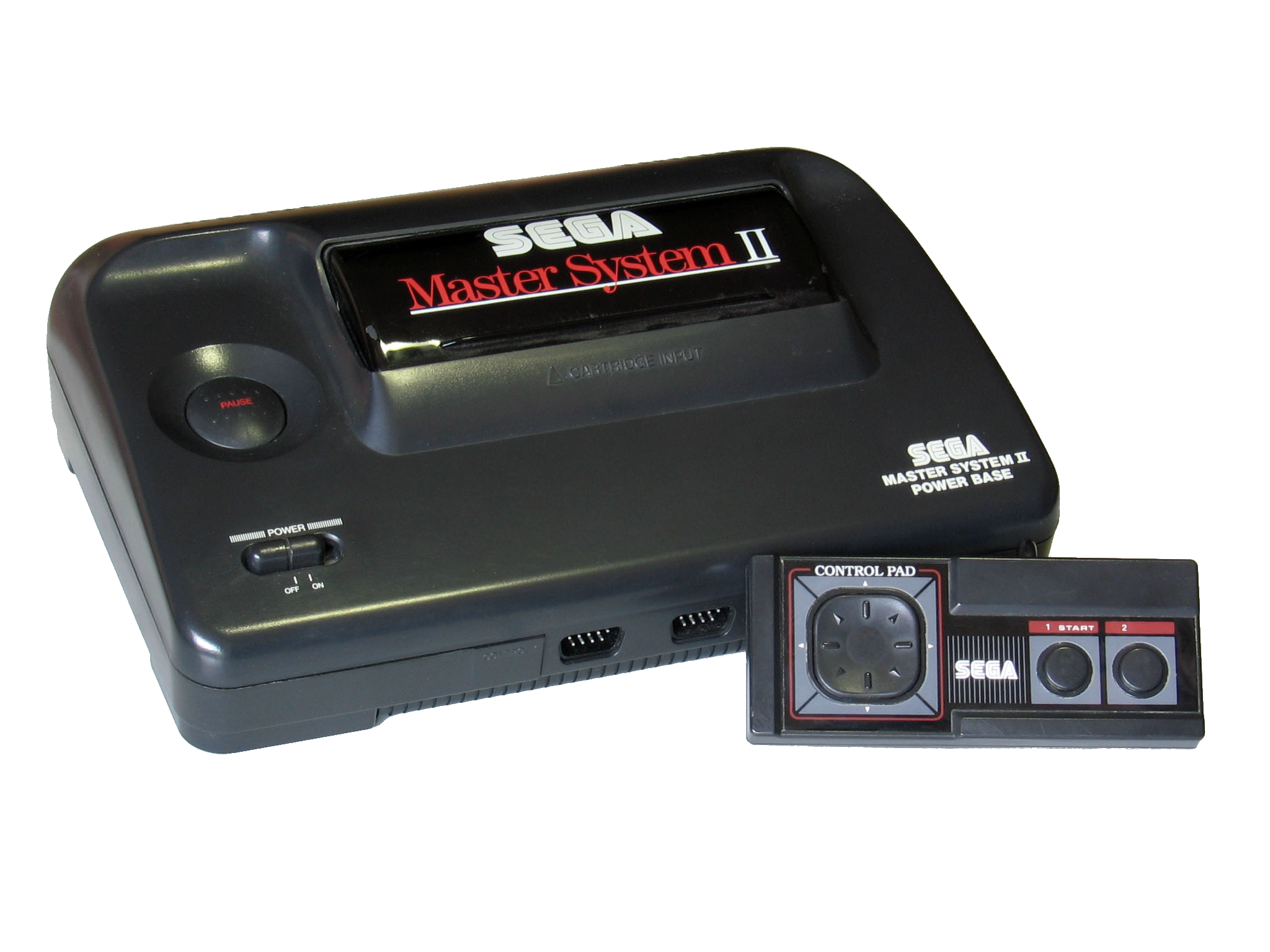 A Sega Master System II game console.